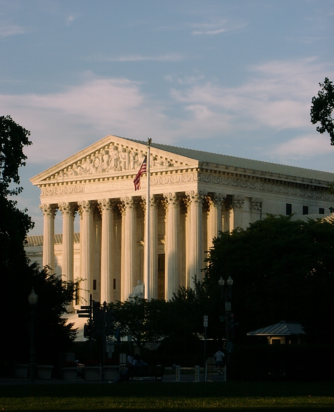 U.S. Supreme Court building in Washington, D.C. at sunset